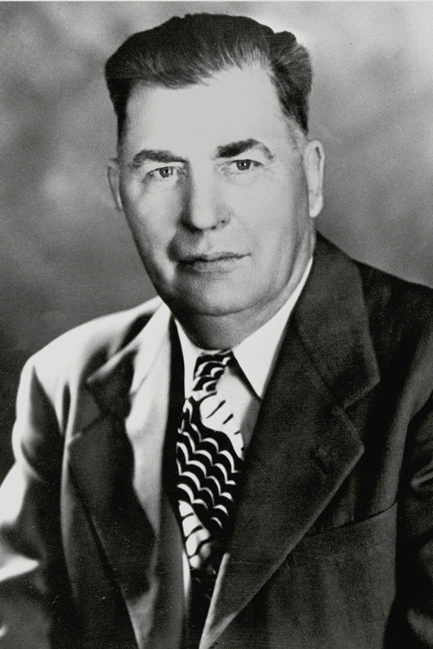 United States Senator Edwin C. Johnson, a photo in the National Digital Library, linked to [1]